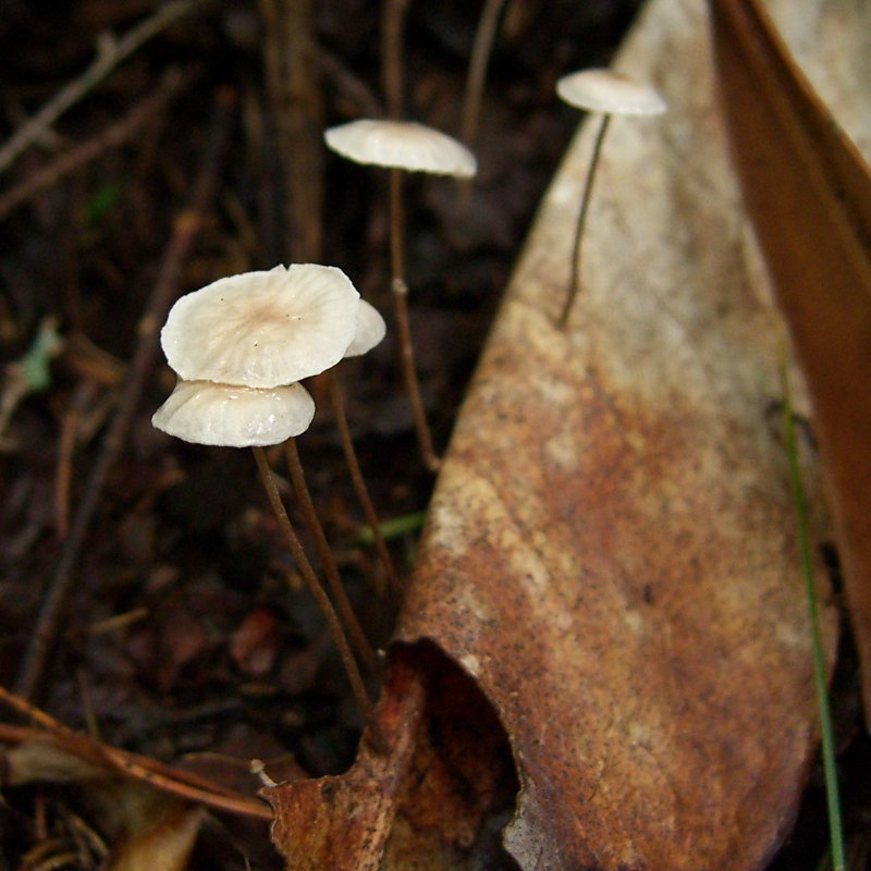 Scientific Name: Marasmius epiphyllus Common Name: Marasmius Certainty: not sure (notes) Location: Appalachians; Smokies; CabinCove Several marching along a rhododendron leaf.